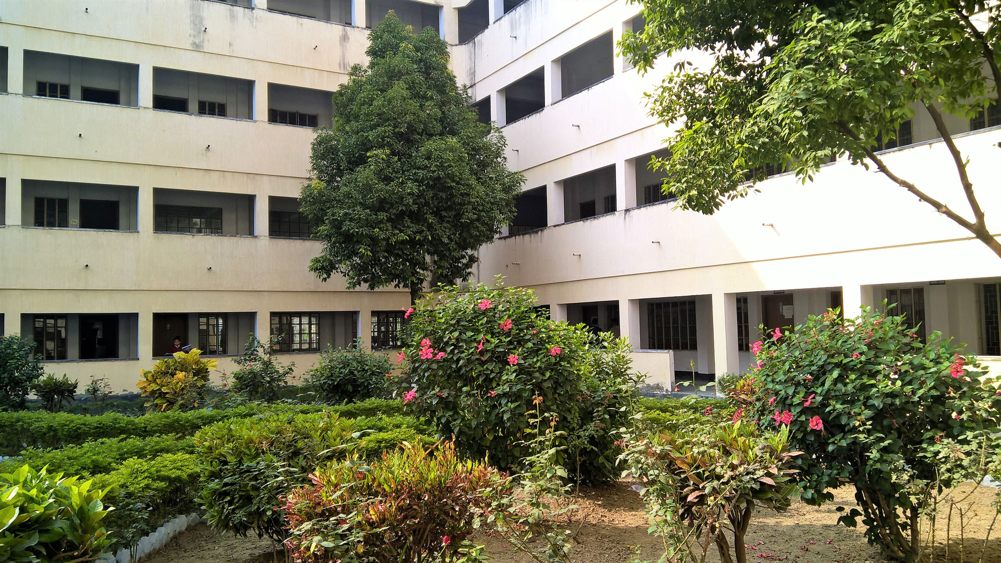 Rajshahi Model School and College is the independent college in Rajshahi College established in 2006.